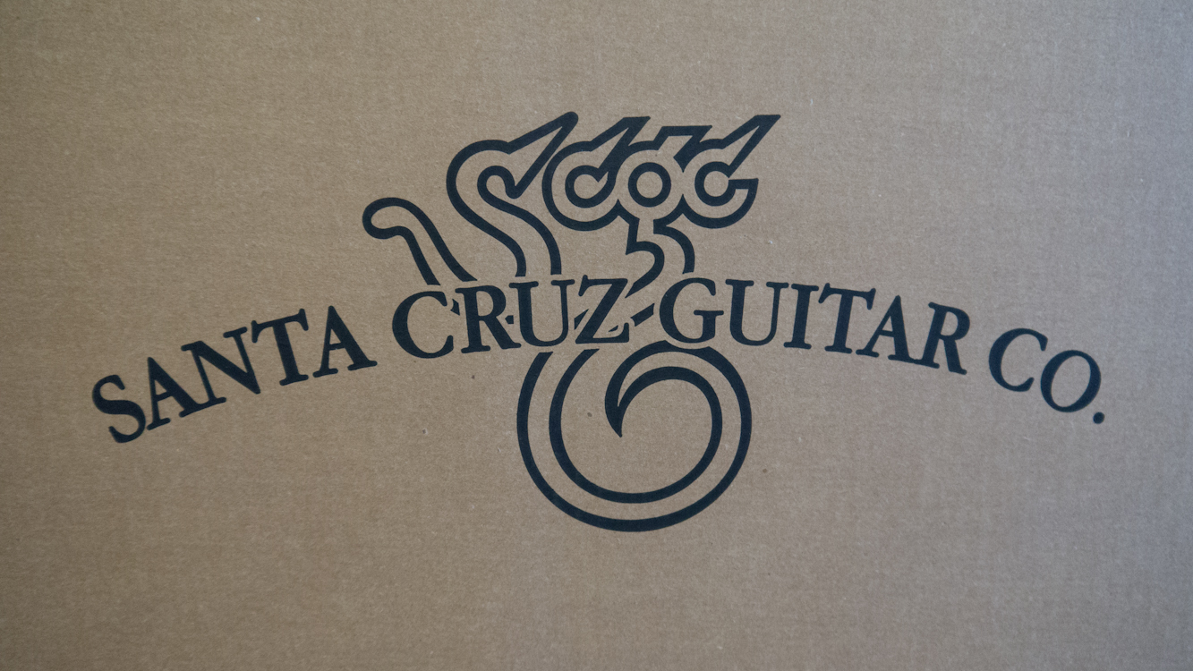 Company logo on one of their cardboard shipping boxes.